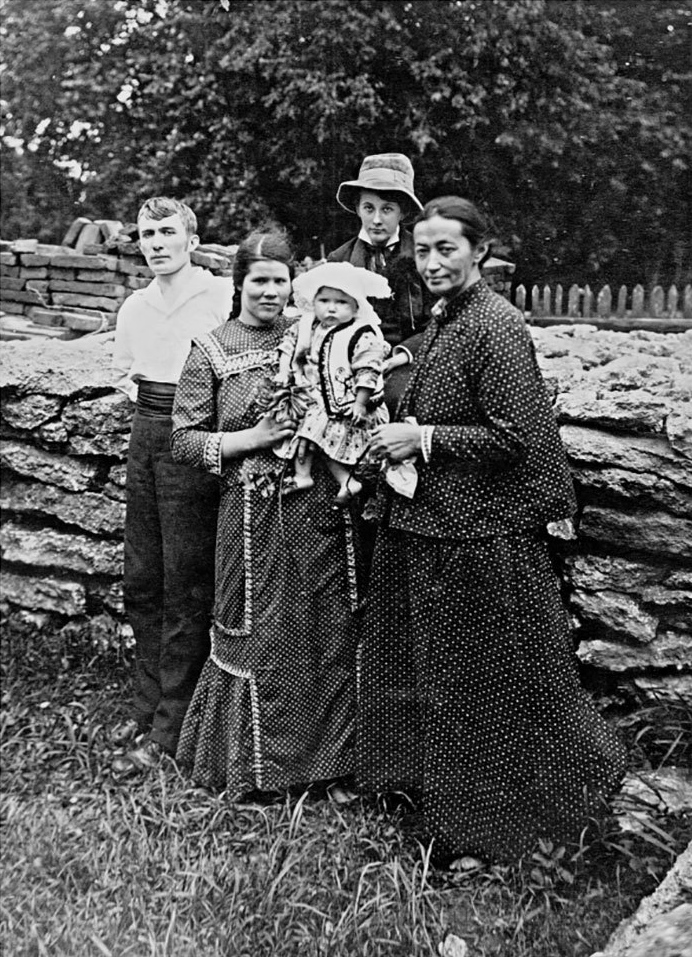 Uliana Kravchenko with family 1920. With hat: youngest daughter Nusya. Behind: Yaroslav Sekela, brother-in-law. In the hands of nurse Xenia: Grandson Leo.